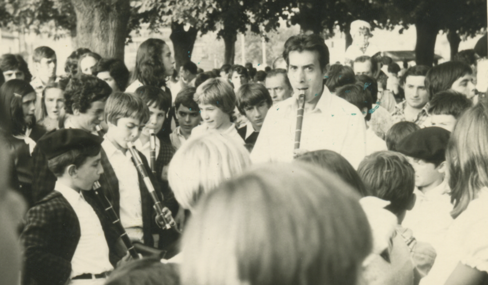 Imanol Urbieta playing the txistu